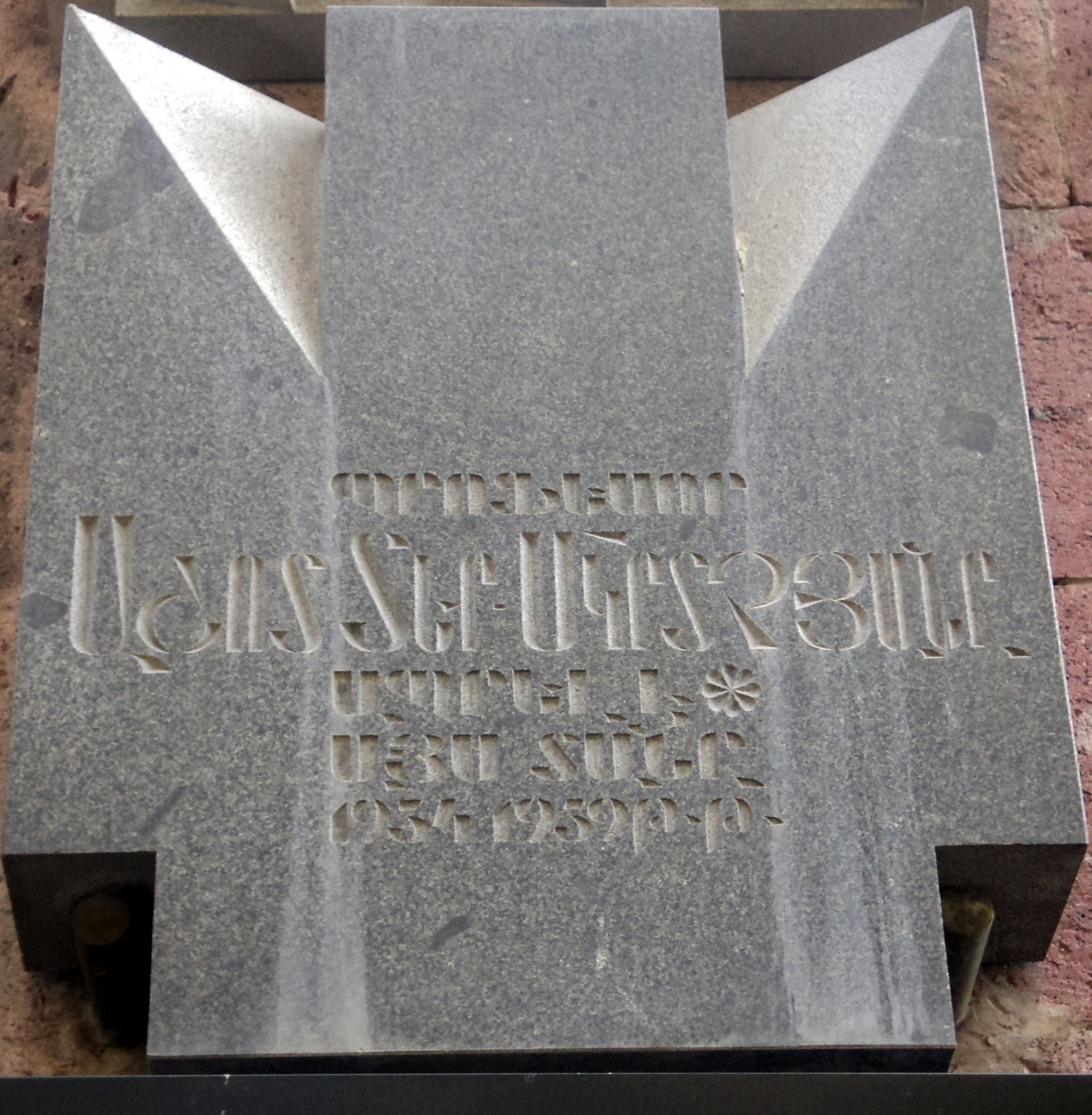 Աշոտ Տեր-Մկրտչյանի հուշատախտակը Երևանում